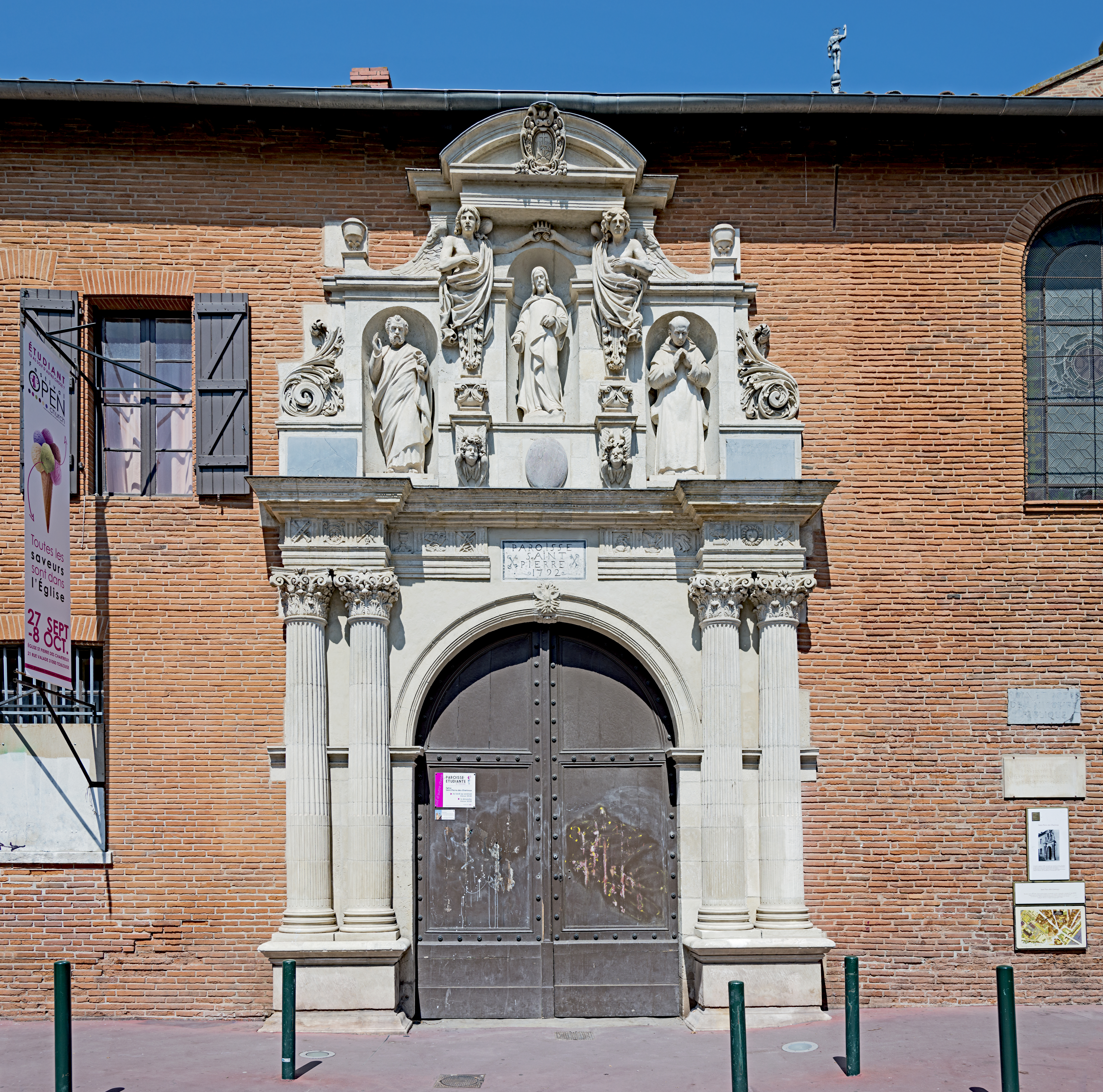 Church Saint-Pierre des Chartreux from Toulouse, portal by Antoine Bachelier in 1613.